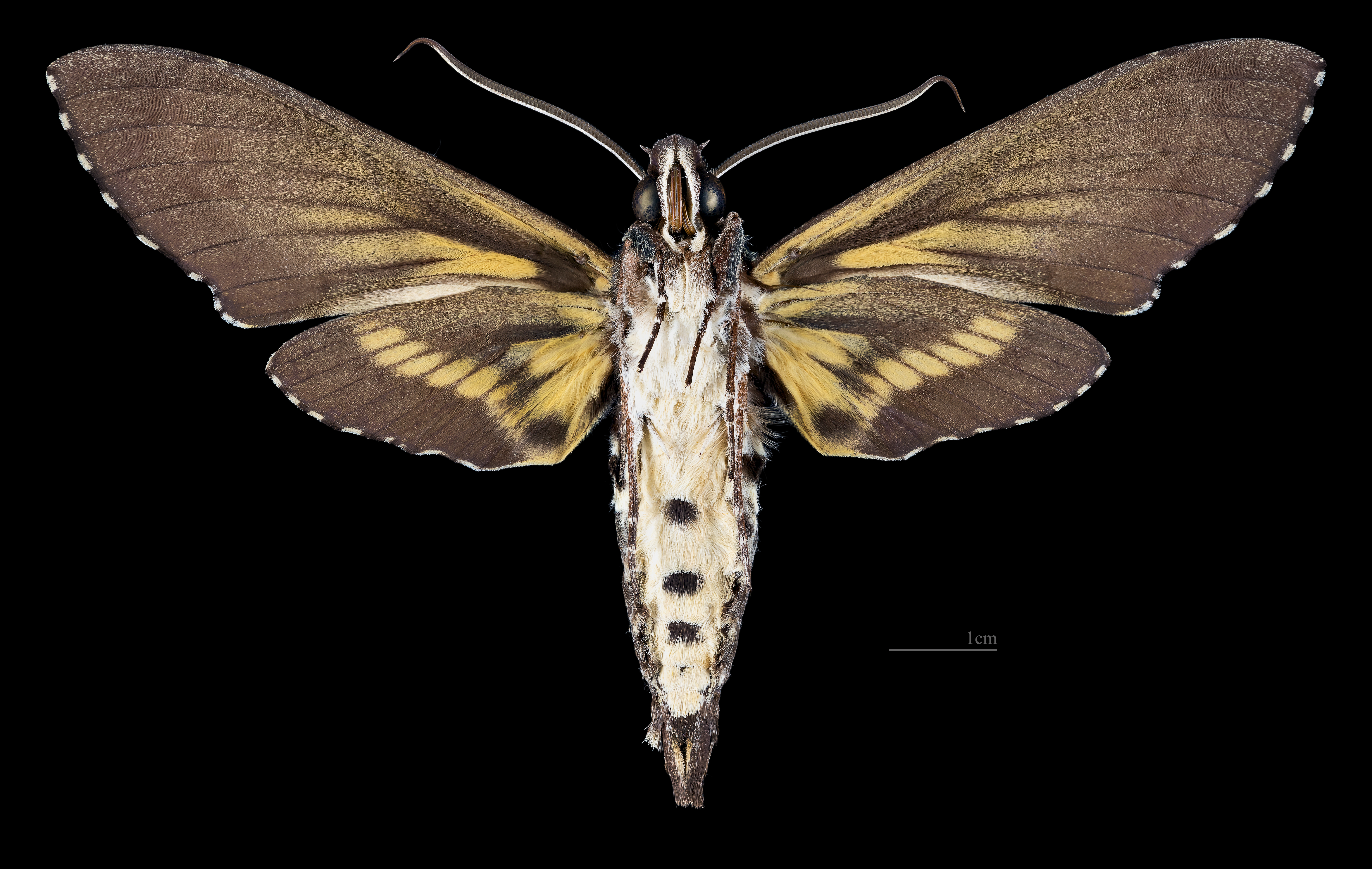 Pseudococytius beelzebuth - △ Ventral side Collection of the Mathematician Laurent Schwartz